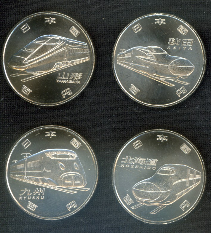 shinkansen 50 years anniversary commemorative coin of Japan Yamagata Shinkansen, Akita Shinkansen, Kyushu Shinkansen, Hokkaido Shinkansen